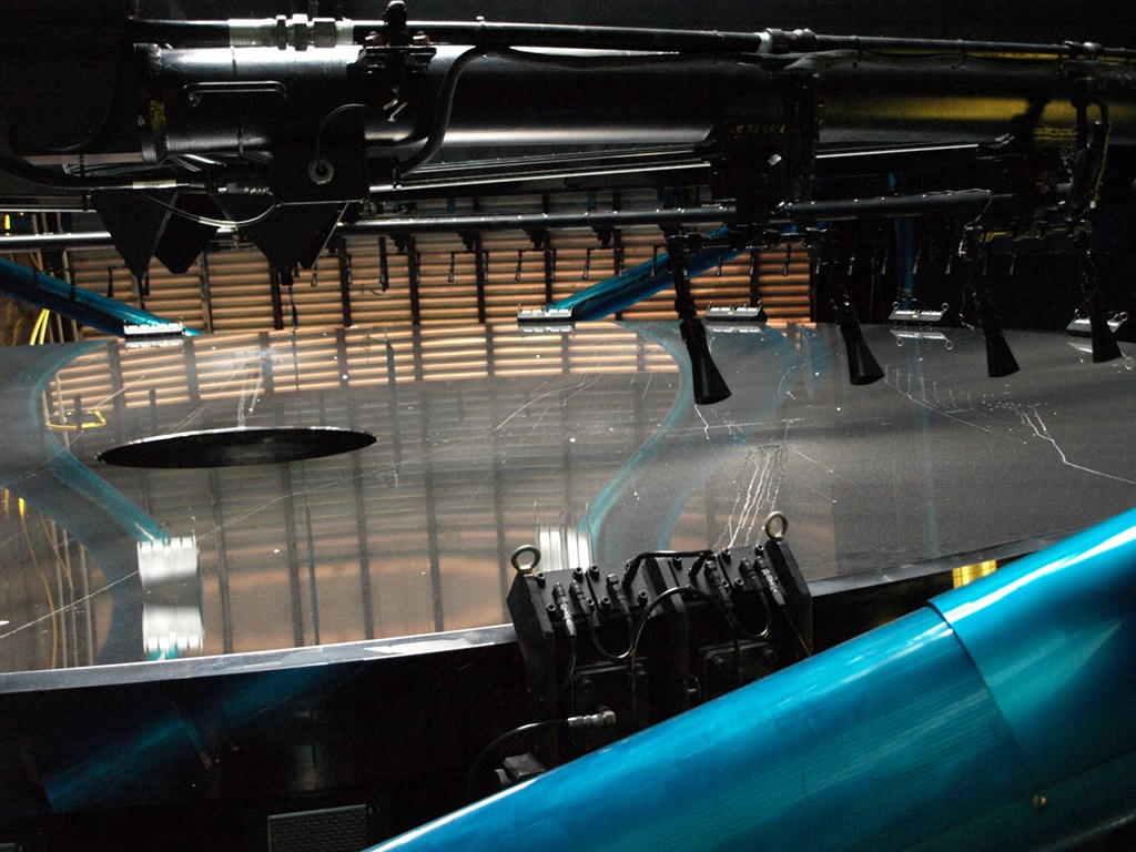 Primary mirror of the telescope under day light showing some dust and water marks on it. The black nozzles are to clean the mirror surface with dry ice.